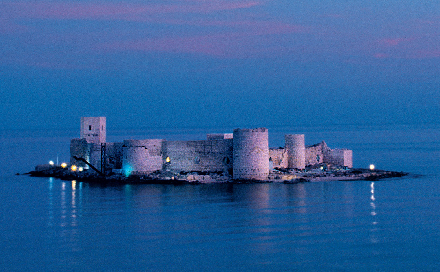 The castle is Kızkalesi, also known as the castle of Corycus in Mersin or historically Tsovaberd (Ծովաբերդ), nowdays Turkey. Source: Boris Baratov